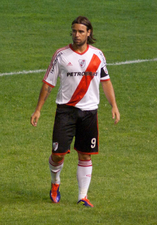 Argentine footballer Fernando Cavenaghi during a match with River Plate.